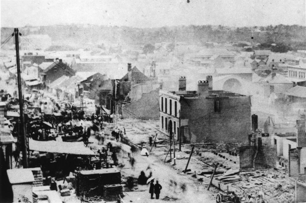 Great fire in Queen Street, Brisbane 1864 Fire broke out on Queen Street between George Street and Albert Street on the east side. (Description supplied with photograph.).